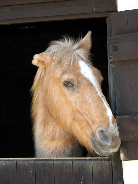 A Palomino Not quite sure what to make of the photographer.